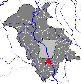 This map shows the area of the Gemeinde (municipality) Feldkirchen bei Graz in the Bezirk (district) Graz-Umgebung, Styria, Austria.